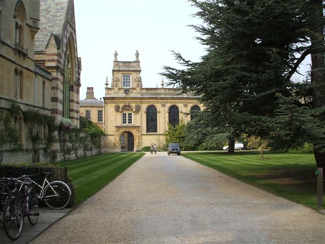 This building is part of Trinity College.